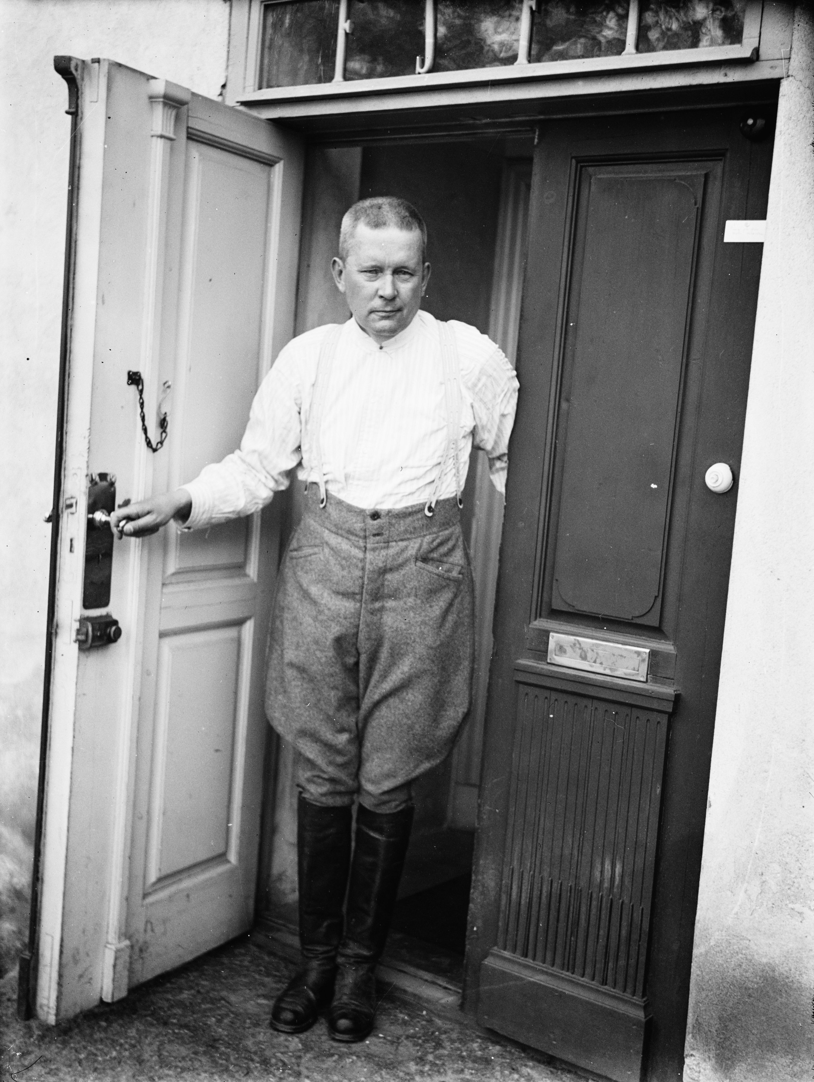 Photograph of the Finnish writer Bertel Gripenberg (1878–1947) at the door of Diktarhemmet, the honorary home for writers in Porvoo.